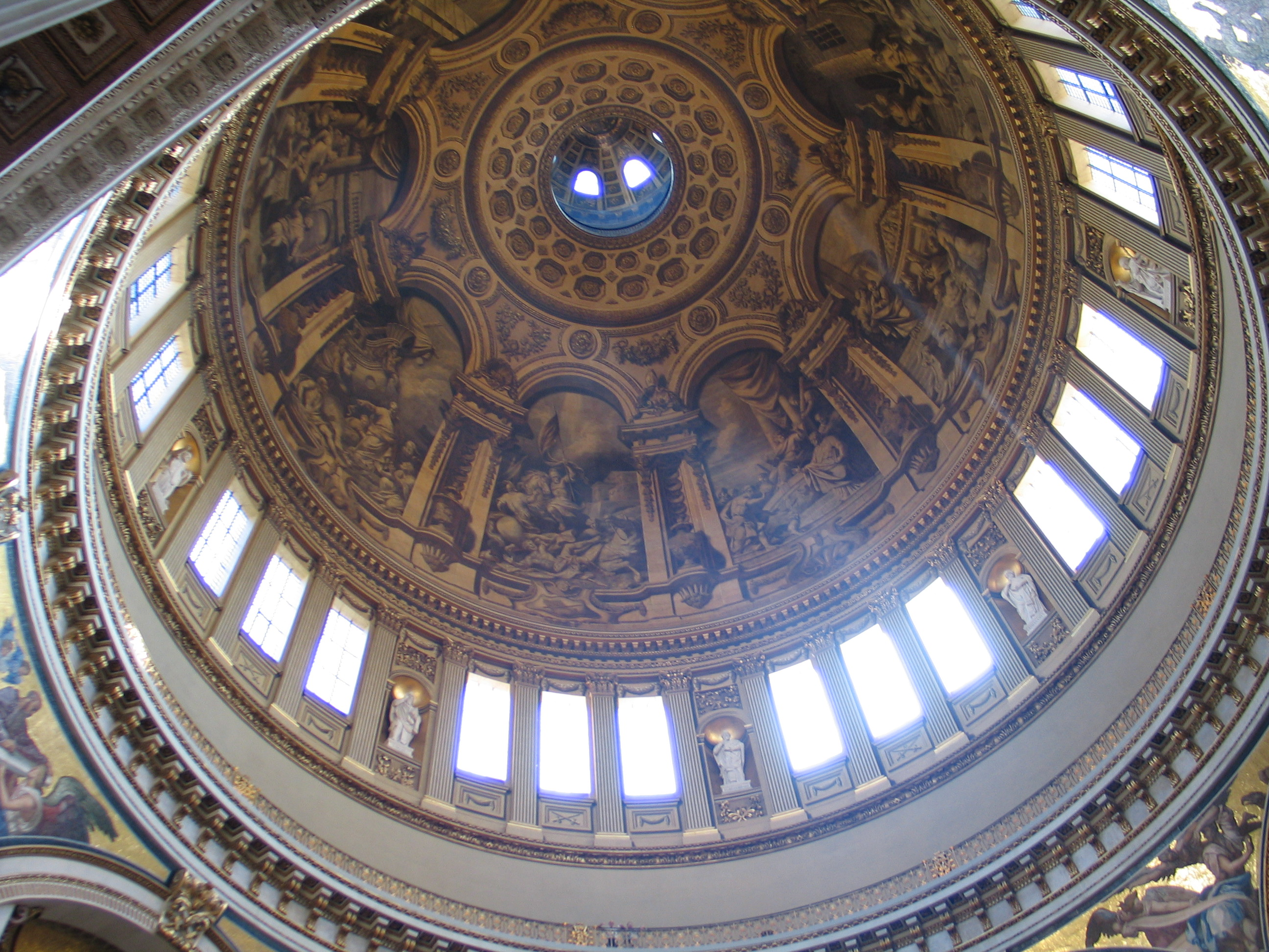 Looking up at the dome of St Paul's Cathedral in London